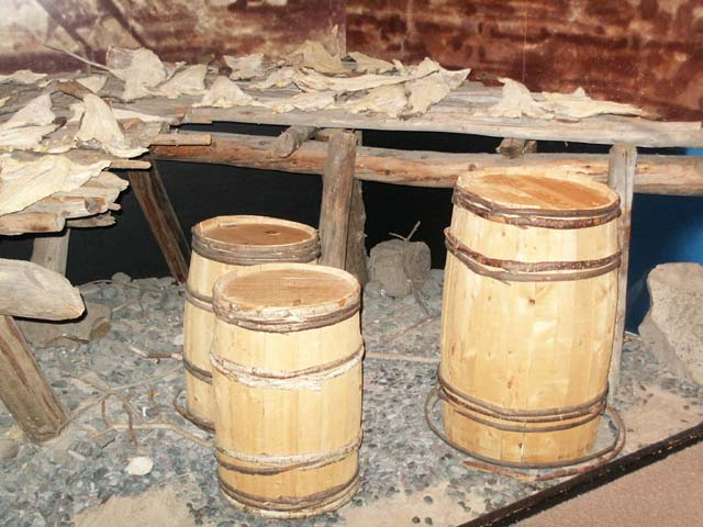 Cod flakes are platforms upon which a catch of fish would dry in the sun before being packed in the salt traditionally used to preserve cod. user:carlb from a travel photo June 2002, Signal Hill